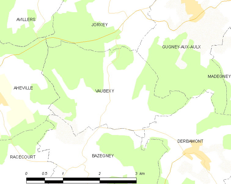 Map of French municipality Vaubexy